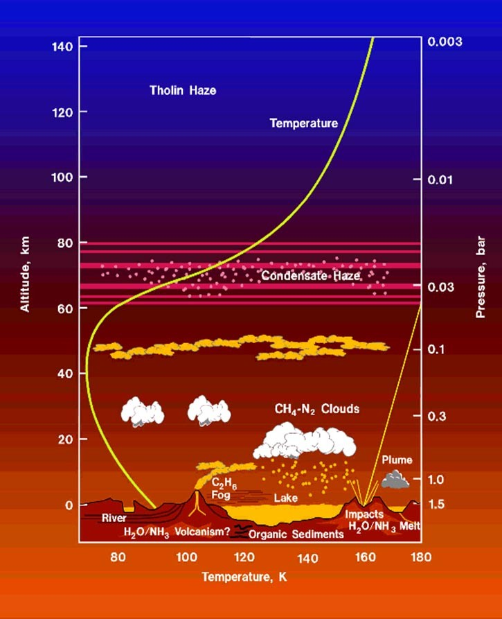 MODEL OF TITAN'S ATMOSPHERE Titan presents an environment that appears to be unique in the solar system, with a thick, hazy atmosphere containing organic (or carbon-based) compounds, an organic ocean or lakes, and a rich soil filled with frozen molecules similar to what scientists believe led to the origin of life on Earth. The major differences between Titan and Earth are Titan's absence very low temperatures and an absence of liquid water. Scientists believe that the surface temperatures on Titan are cold enough to preclude any biological activity whatsoever at Titan. As on Earth, the dominant atmospheric constituent in Titan's atmosphere is nitrogen. Methane represents about six percent of the atmosphere. Titan's surface pressure is 1.6 times that on Earth, despite Titan's smaller size. The surface temperature was found by Voyager to be 95 degrees Kelvin (minus 289 degrees Fahrenheit). The opacity of Titan's atmosphere is caused by naturally produced photochemical smog. Voyager's infrared spectrometer detected many minor constituents produced primarily by photochemistry of methane, which produces hydrocarbons such as ethane, acetylene and propane. With Titan's smoggy sky and distance from the Sun, a person standing on Titan's surface in the daytime would experience a level of daylight equivalent to about 1/1,000th the daylight at Earth's surface.